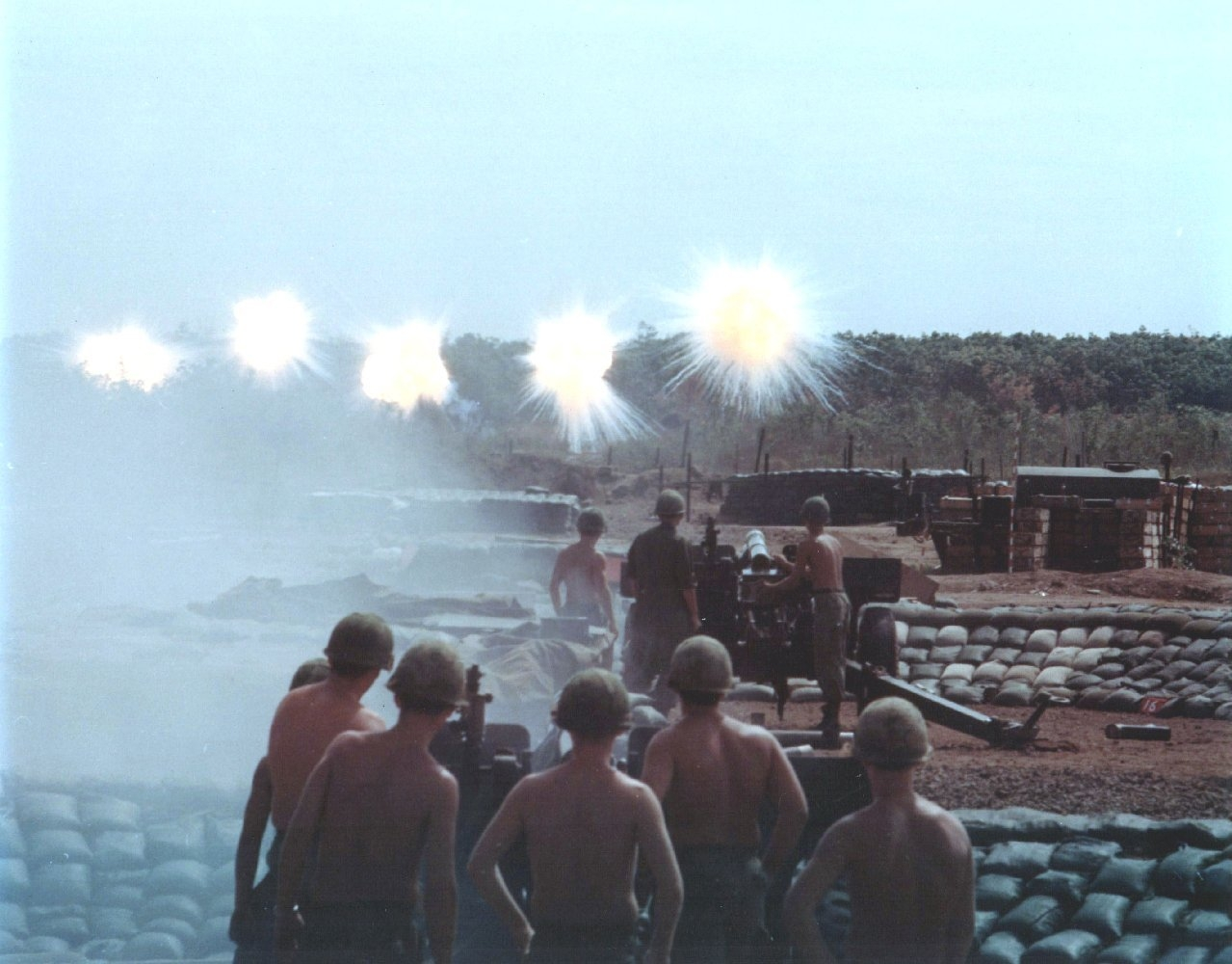 Firing aerial projectiles from 105mm howitzers, Btry. C, 2nd Bn., 77th Arty., 25th Inf. Div., Fire Support Base Sedwick II, Vietnam